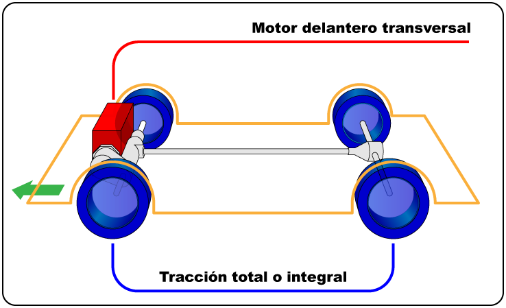 Vehicle engine and drive wheel placement diagrams